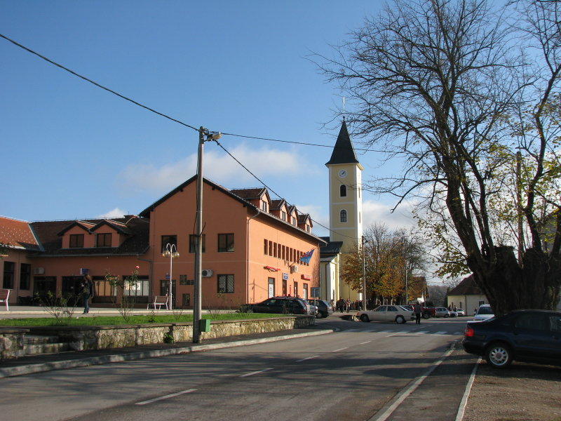 Cetingrad